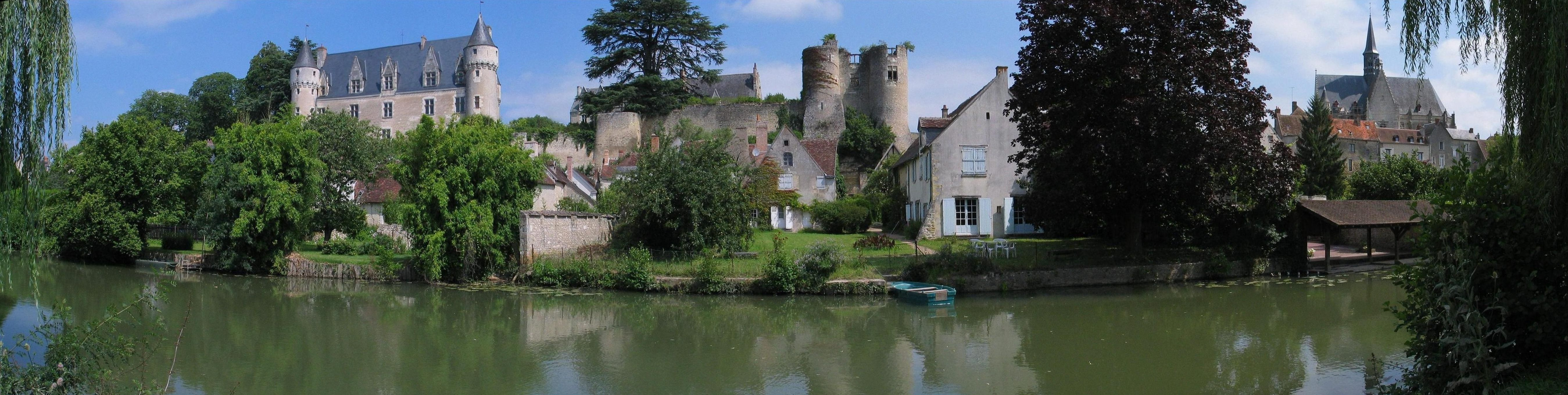 The village, South view, as seen from the banks of river Indrois, Montrésor, Indre-et-Loire, France.